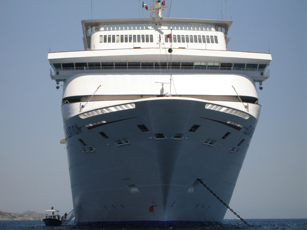 Carnival Cruise Elation - August 2007